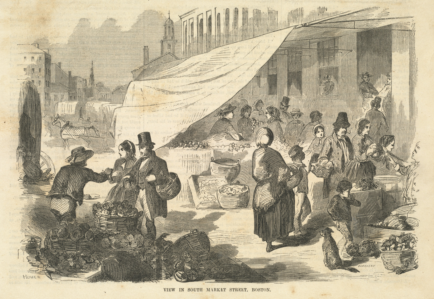 File name: 10_09_000131 Title: View in South Market Street, Boston Creator/Contributor: Homer, Winslow, 1836-1910 (artist) Date issued: 1857-10-03 Physical description: 1 print : wood engraving Genre: Wood engravings; Periodical illustrations Notes: Published in: Ballou's Pictorial, Volume XIII, 3 October 1857, p. 209.; Signed lower left: Homer.; Signed lower right: Damoreau. Collection: Winslow Homer Collection Location: Boston Public Library, Print Department Rights: No known restrictions Flickr data on 2011-08-11: Camera: Sinar AG Sinarback 54 FW, Sinar m Tags: Winslow Homer User: Boston Public Library BPL